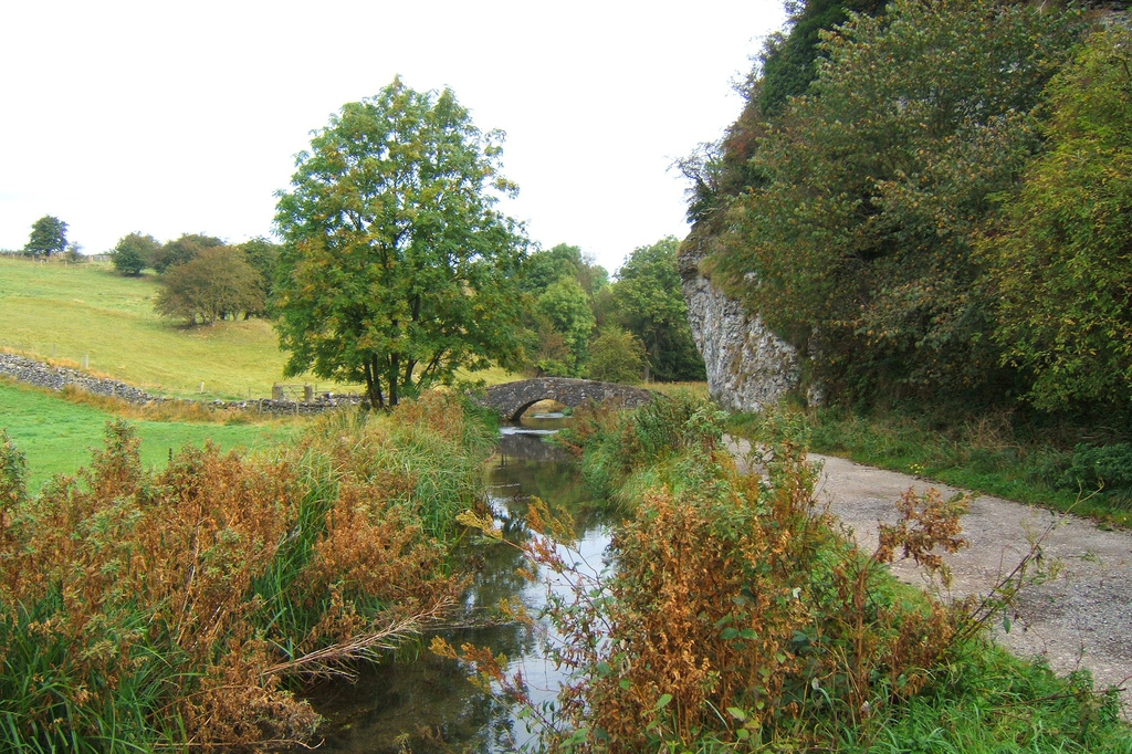 Nothing to do with Bradford in Yorkshire! This is the River Bradford in Derbyshire, which is a short but pretty tributary of the River Lathkill.